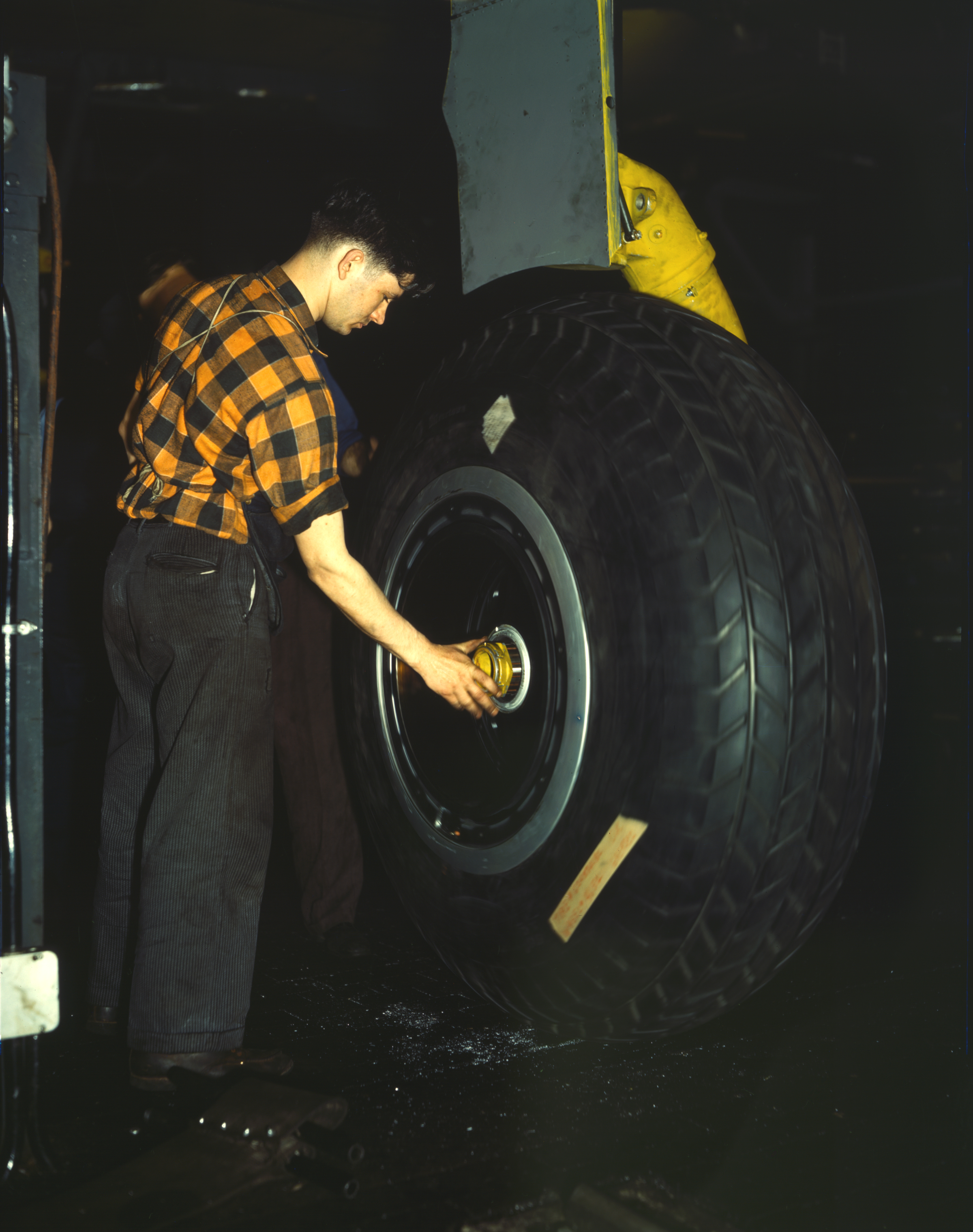 Inspecting of landing wheel of the transport planes in Willow Run Airport, Michigan, United States.